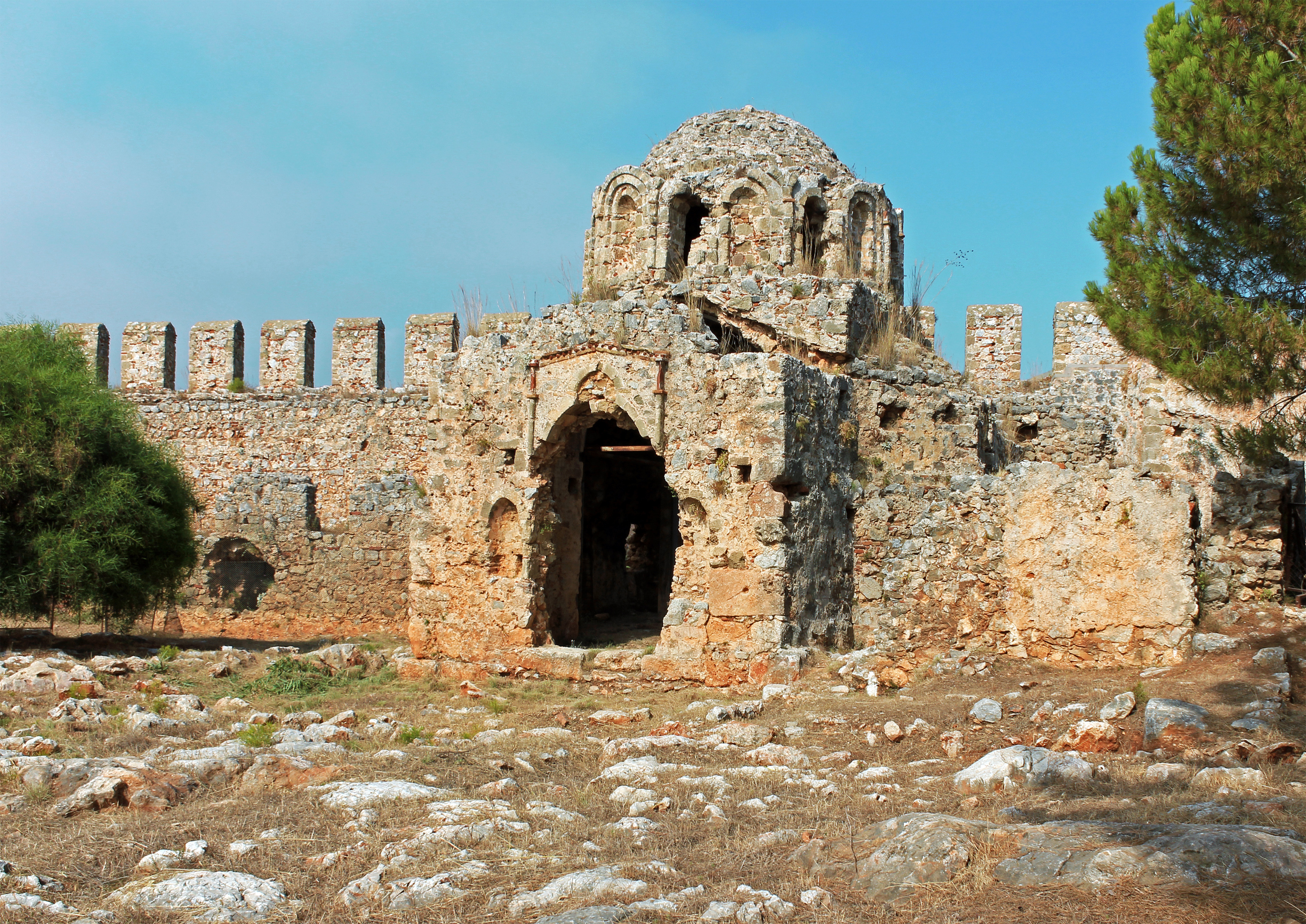 Ruins of Byzantine Church of Saint George in Alanya Castle